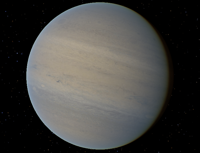 HD 147018 c, extrasolar planet candidate.